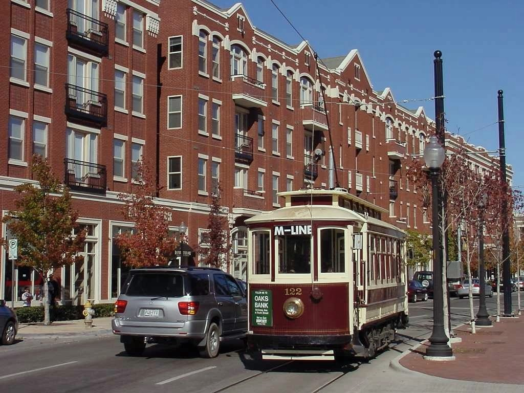 Streetcar 122 of Dallas' McKinney Avenue streetcar line (M-Line) in the West Village district of Dallas. Car 122 was built in 1909 by the J. G. Brill Company, of Philadelphia.